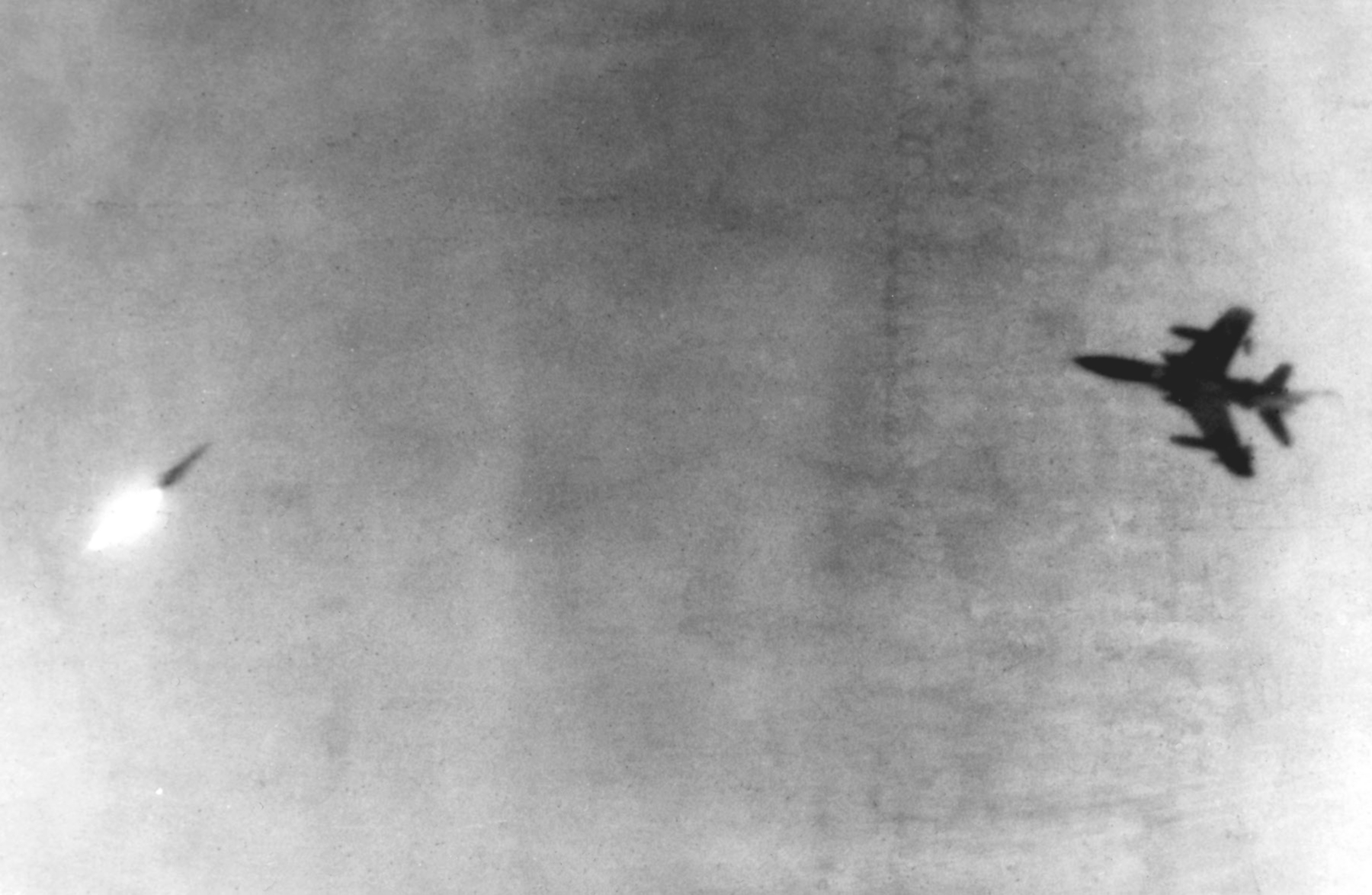 A U.S. Air Force Republic F-105D Thunderchief attempting to dodge an SA-2 missile over North Vietnam.